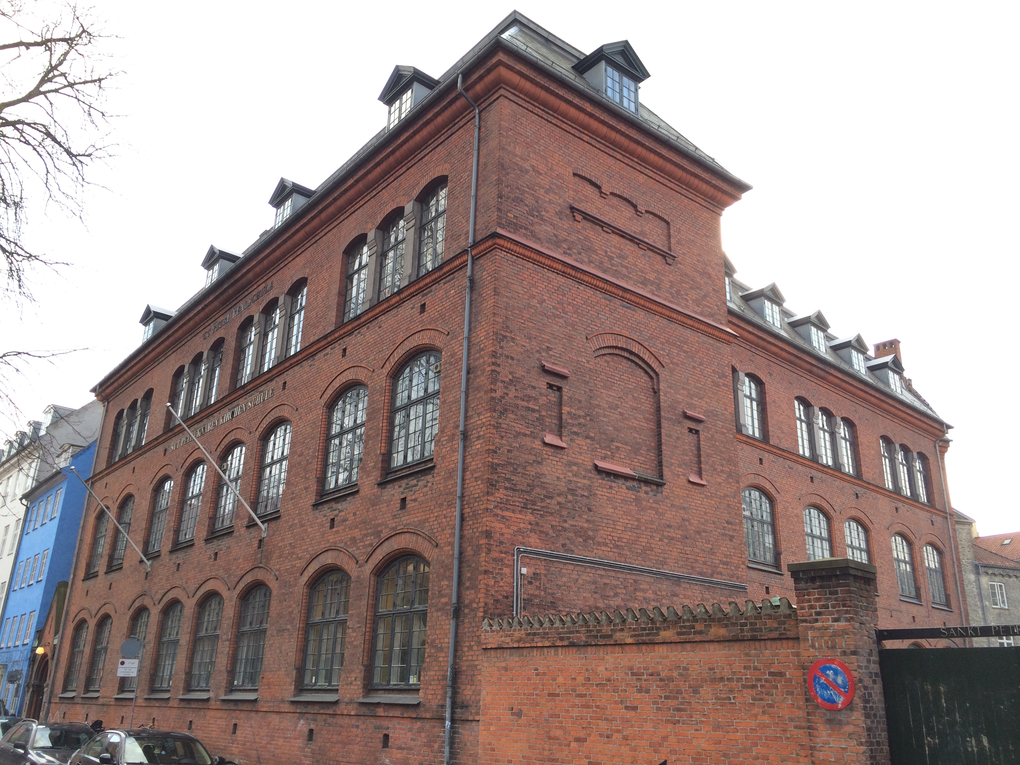 Sankt Petri Schule - German school in Copenhagen, Denmark